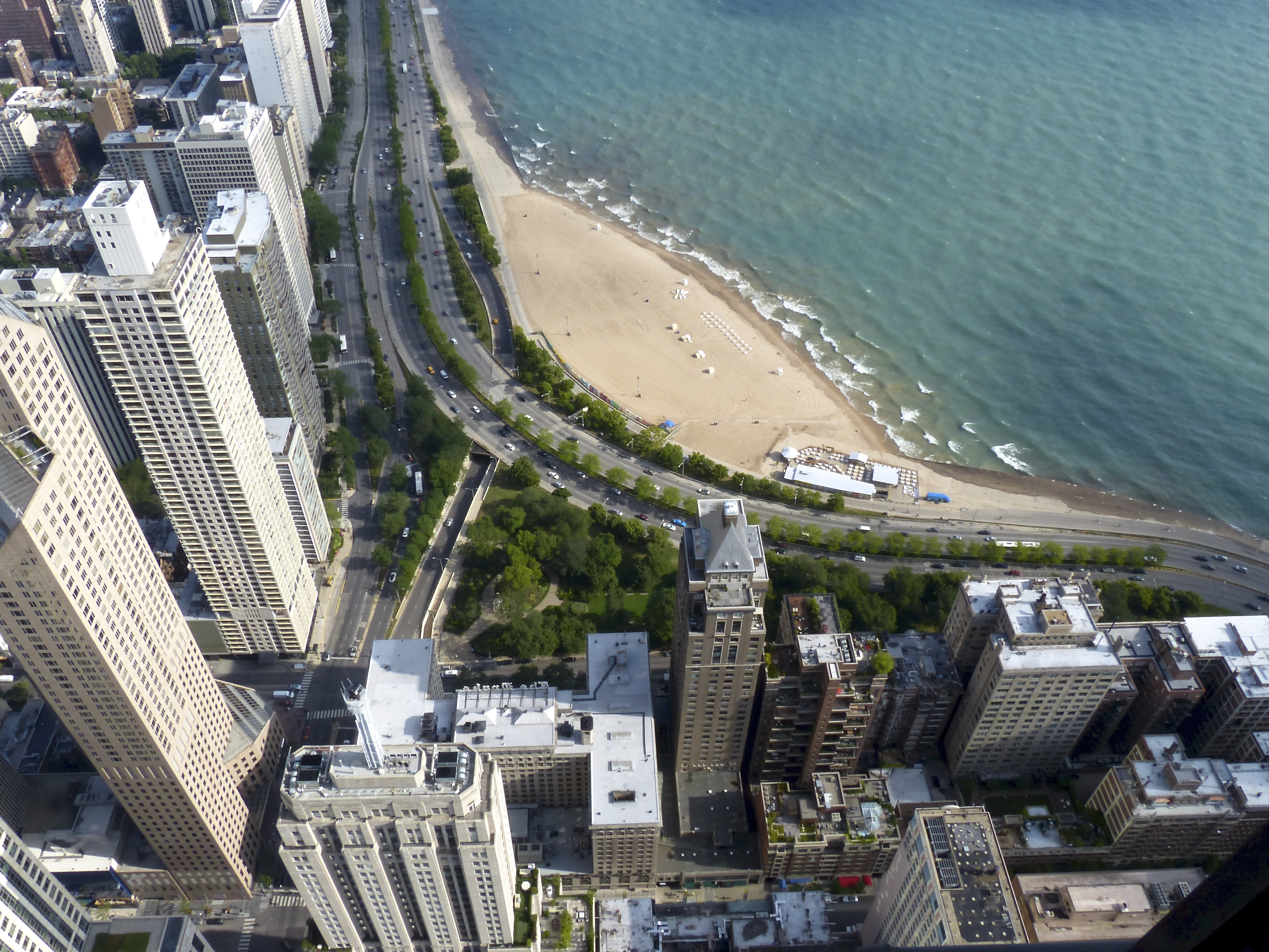 Chicago: Bird's-Eye View